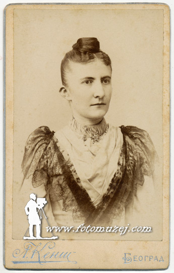 Katarina Milovuk, portrait